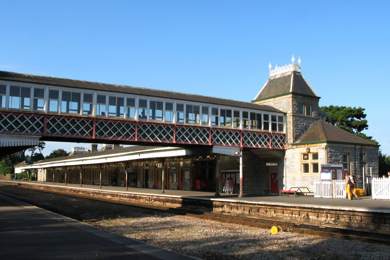 The south end of Torquay railway station, Devon, England, looking eastwards towards the beach.